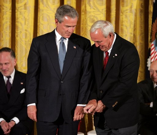 Recipient of the Presidential Medal of Freedom Arnold Palmer compares golf grips with President George W. Bush before receiving his award in the East Room of the White House on June 23, 2004.